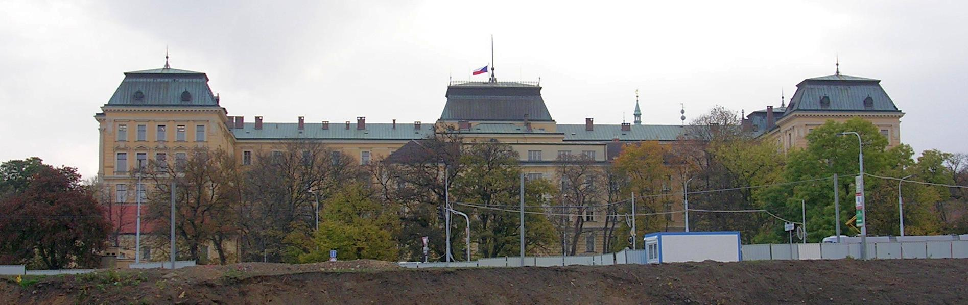 Dejvice and Hradčany , Prague, the Czech Republic. Ministry of Defense.